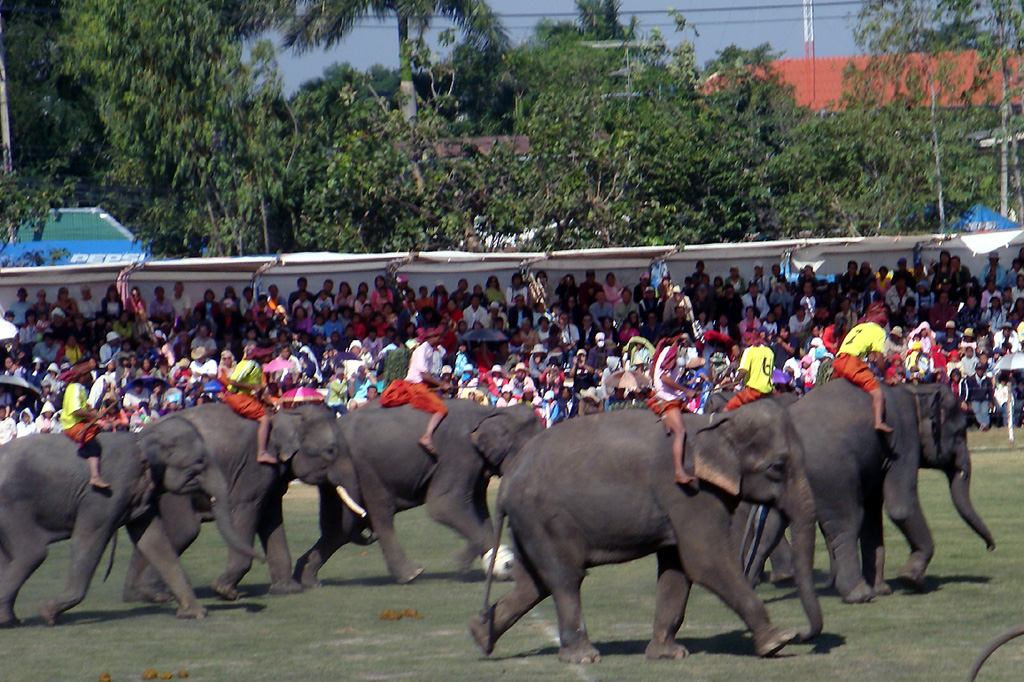 “Football match” at Surin Elephant Round-up Show 2009